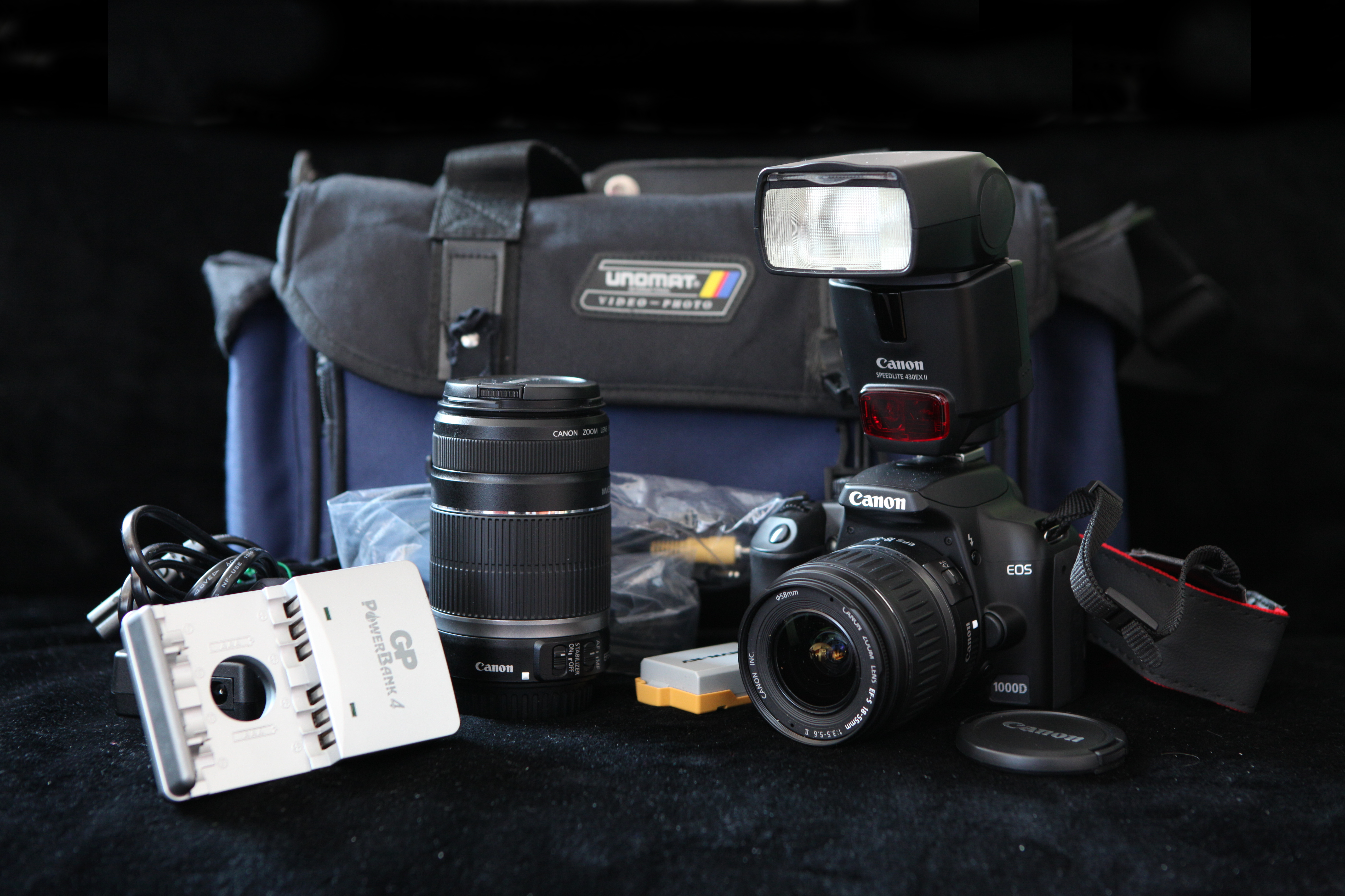 Camera for Wikimedia Czech Republic's Camera grant